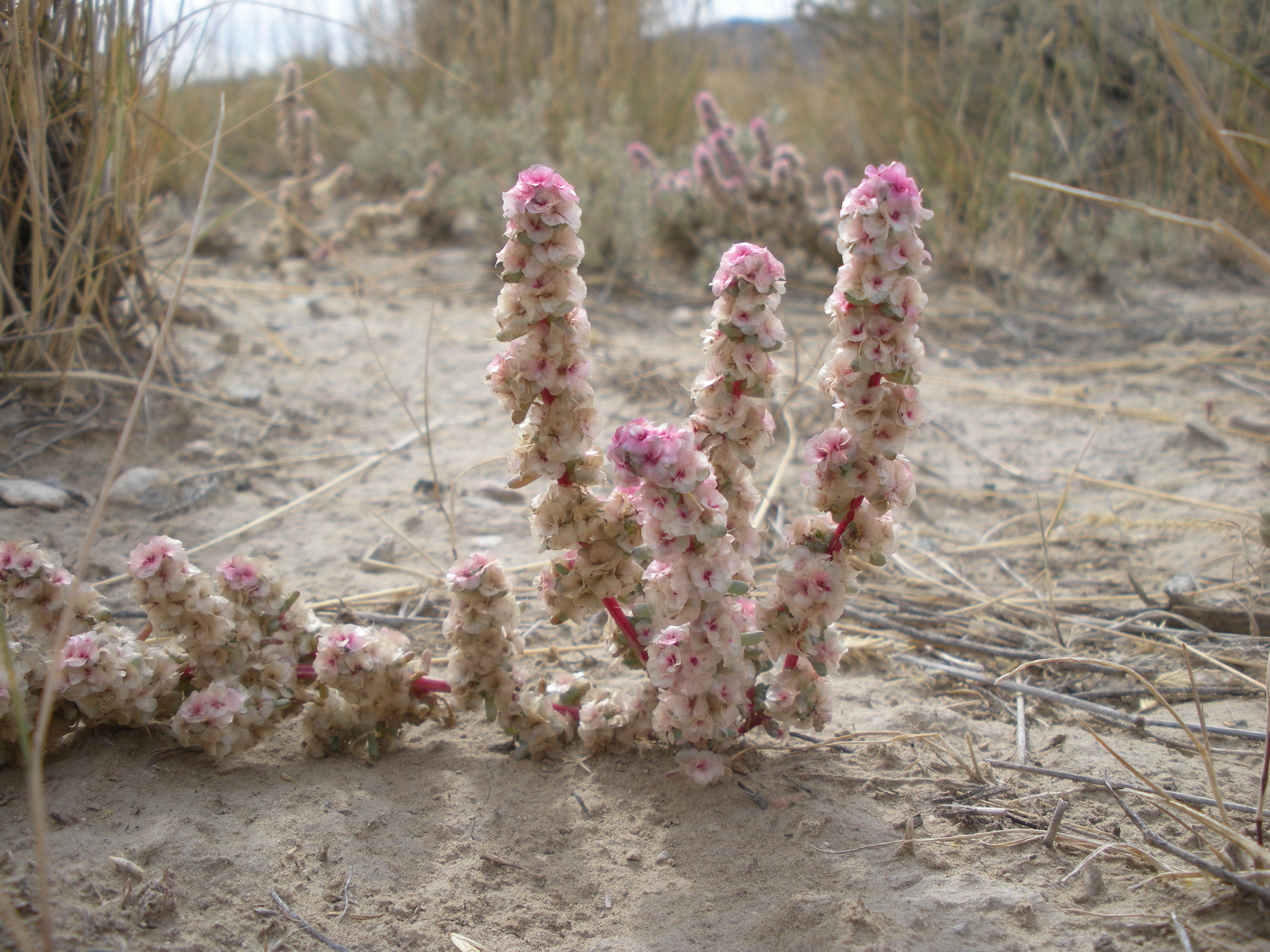 Halogeton produces a showy perianth during the fall when all seems completely dessicated. Agropyron cristatum sits in the background.